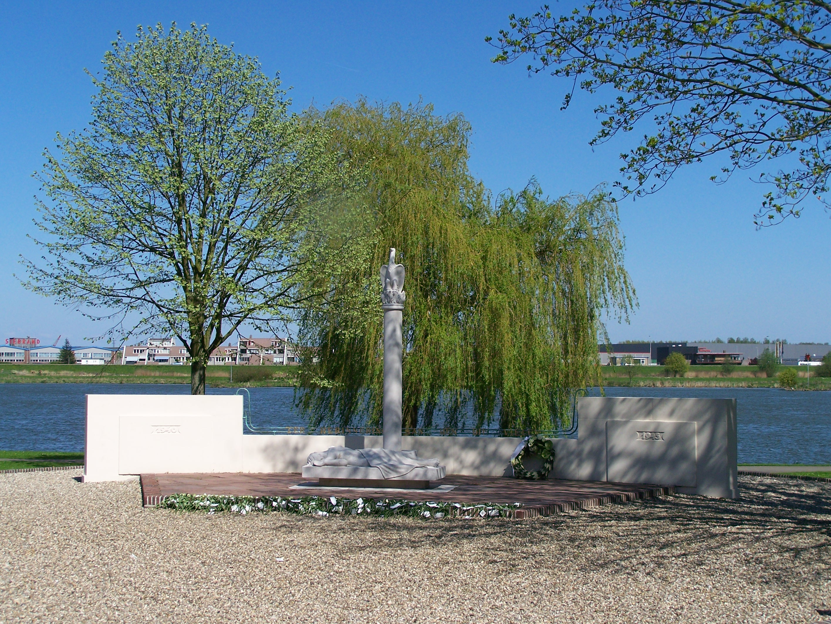 World War II Memorial in Kampen at the De La Sablonièrekade. Made by Hildo Krop in 1949.